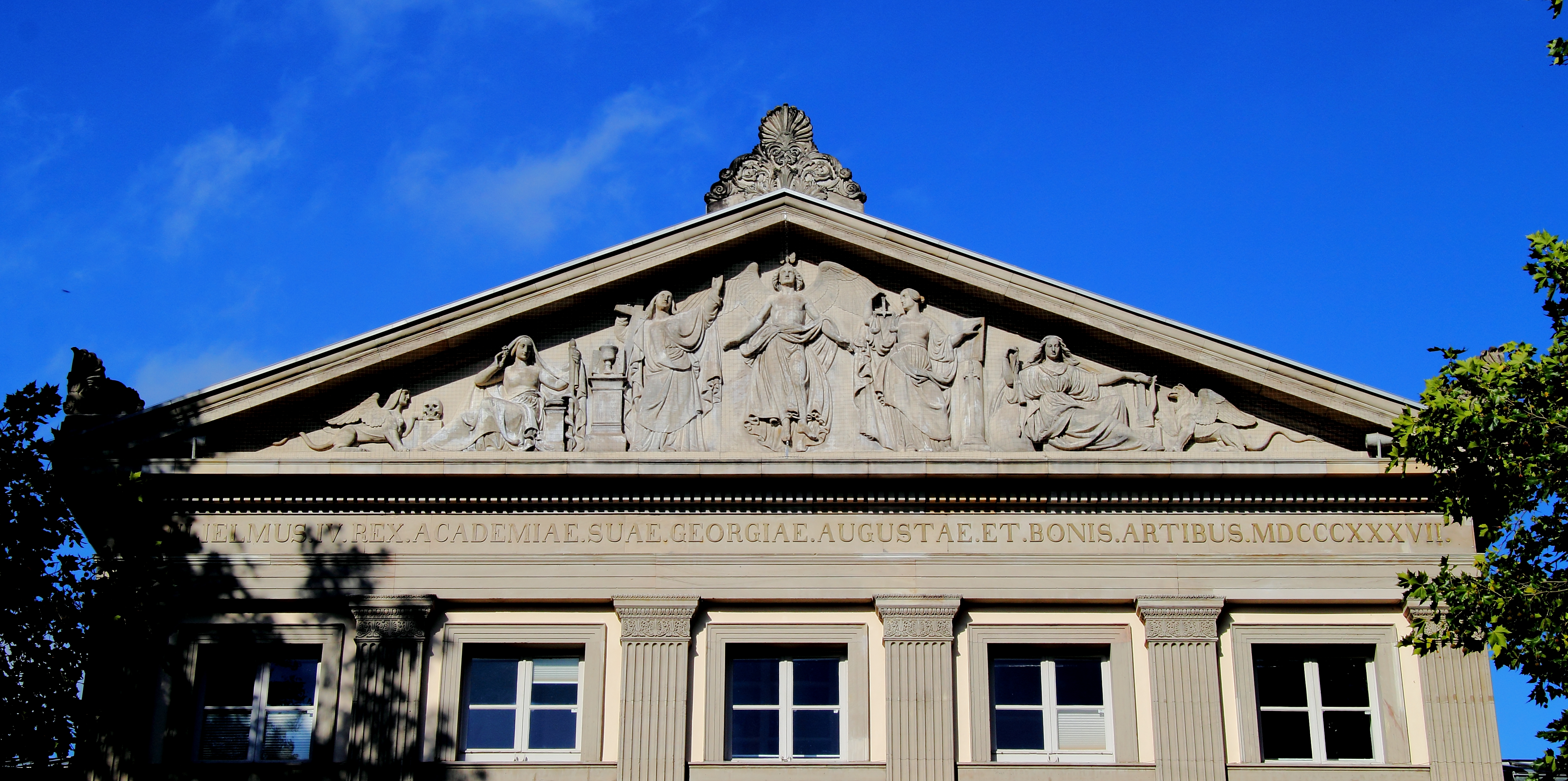 Göttingen: central administration building with general assembly hall of Göttingen University, showing in the tympanum the allegories of the four classical faculties (theology, law, medicine, philosophy) Inscription: GUILIELMUS.IV.REX.ACADEMIÆ.SUÆ.GEORGIÆ.AUGUSTÆ.ET.BONIS.ARTIBUS.MDCCCXXXVII King William IV. [dedicated this building] to his George Augustus Academy und to the useful arts in the year 1837